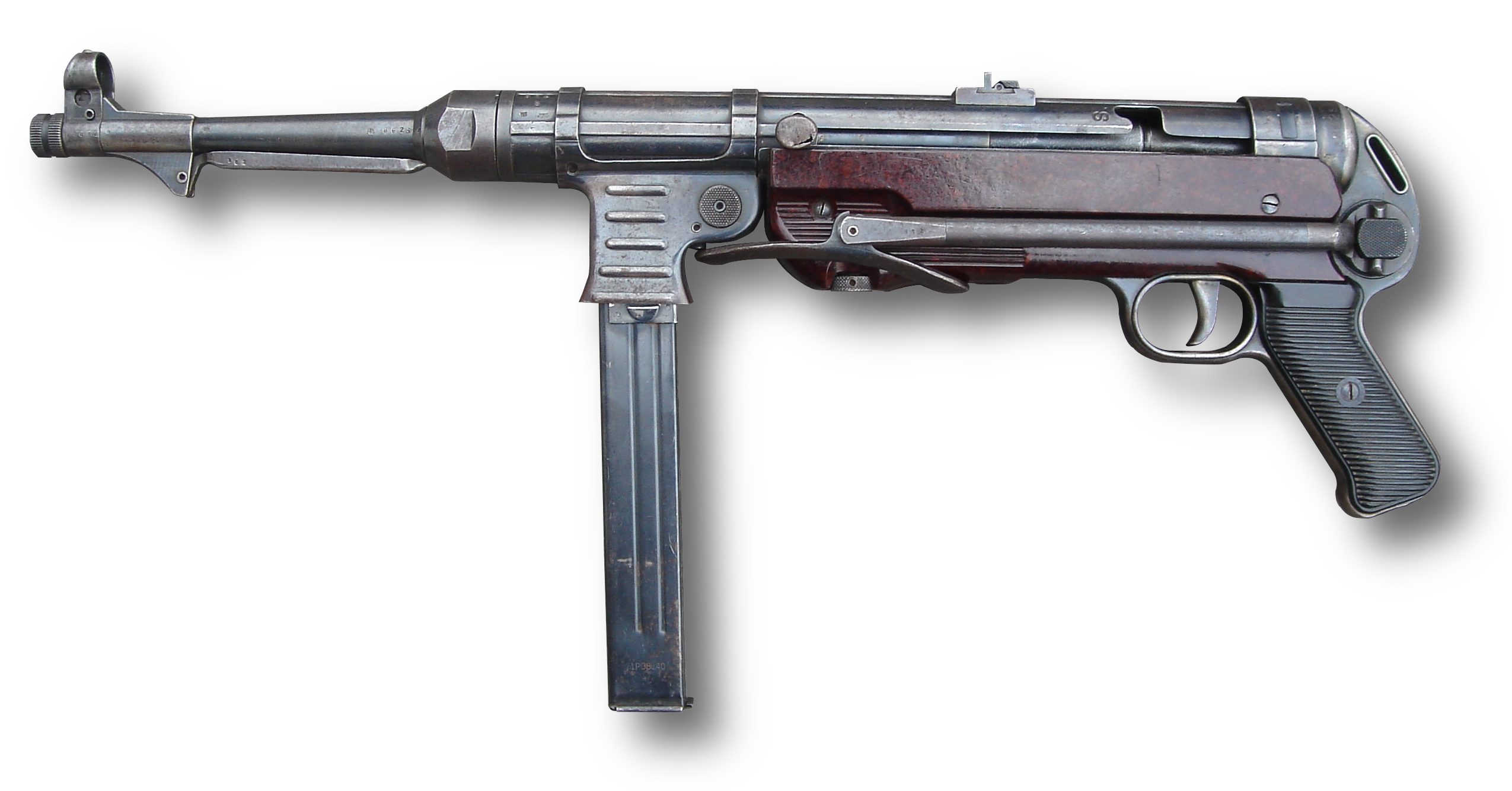 MP40 — Erma, 1943 manufacturing, folded stock.